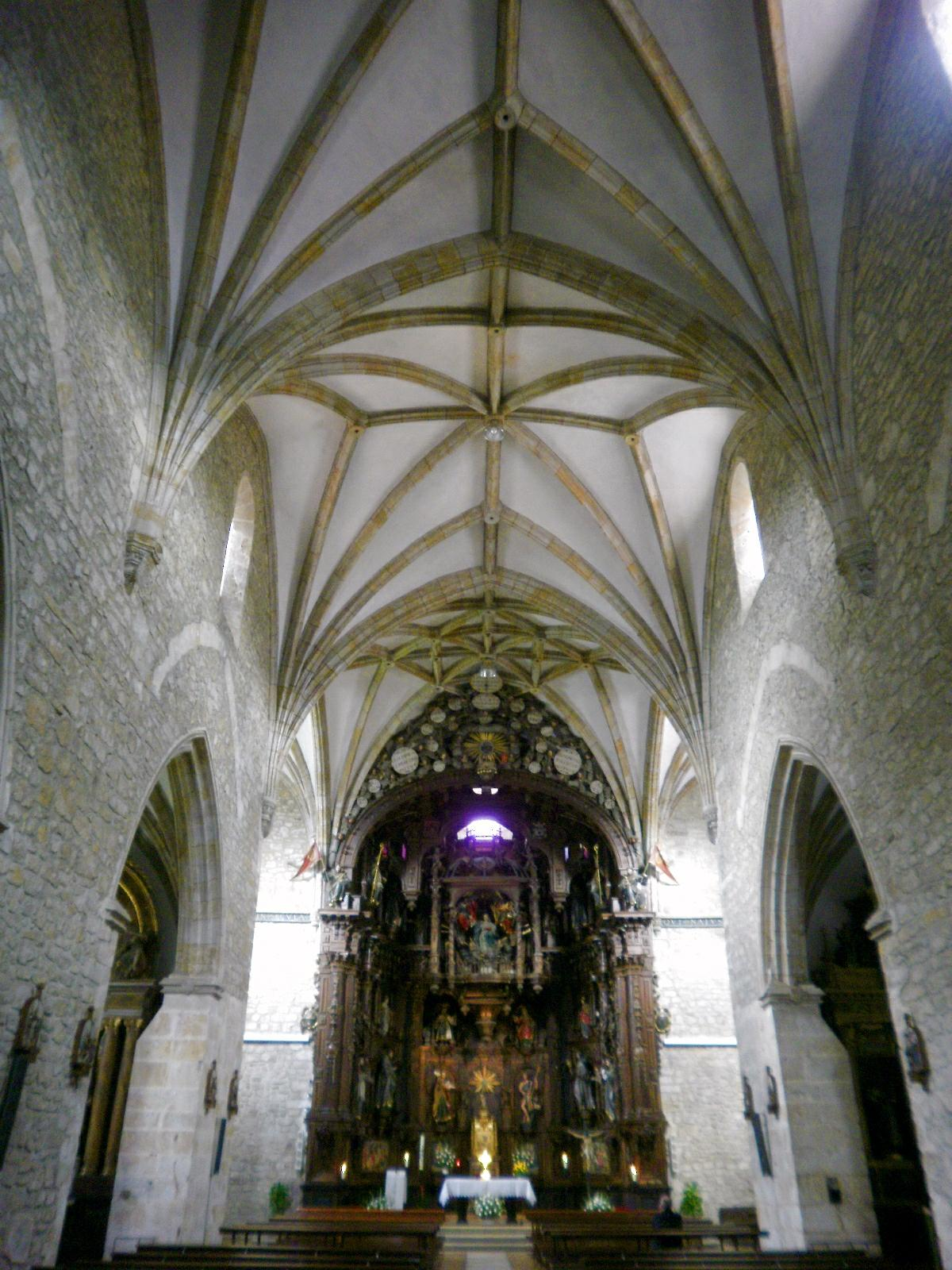 Nave principal de la iglesia del Monasterio de Santa Clara de Bidaurreta, en Oñate (Guipúzcoa, País Vasco, España)